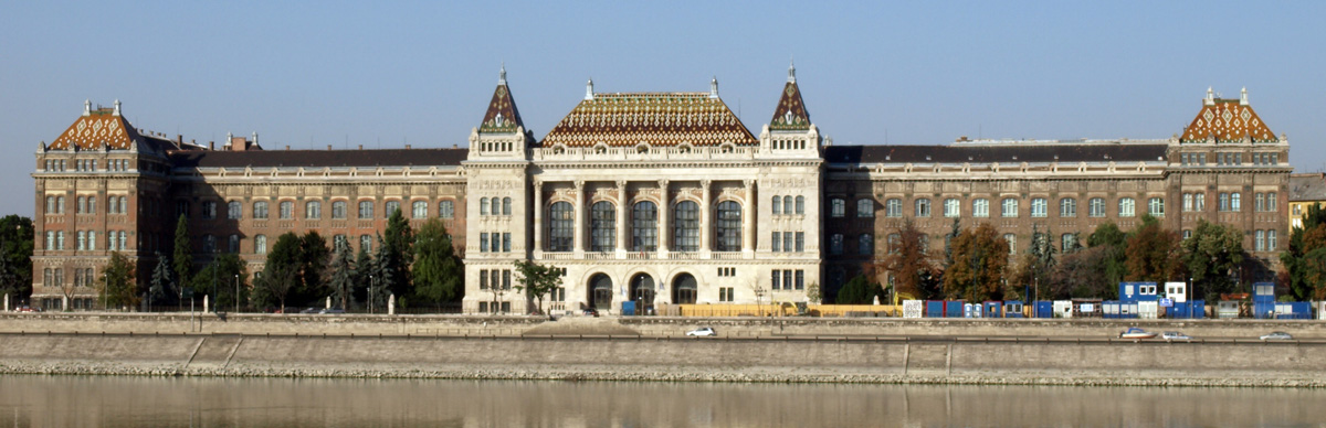 Budapest Technical University, building K